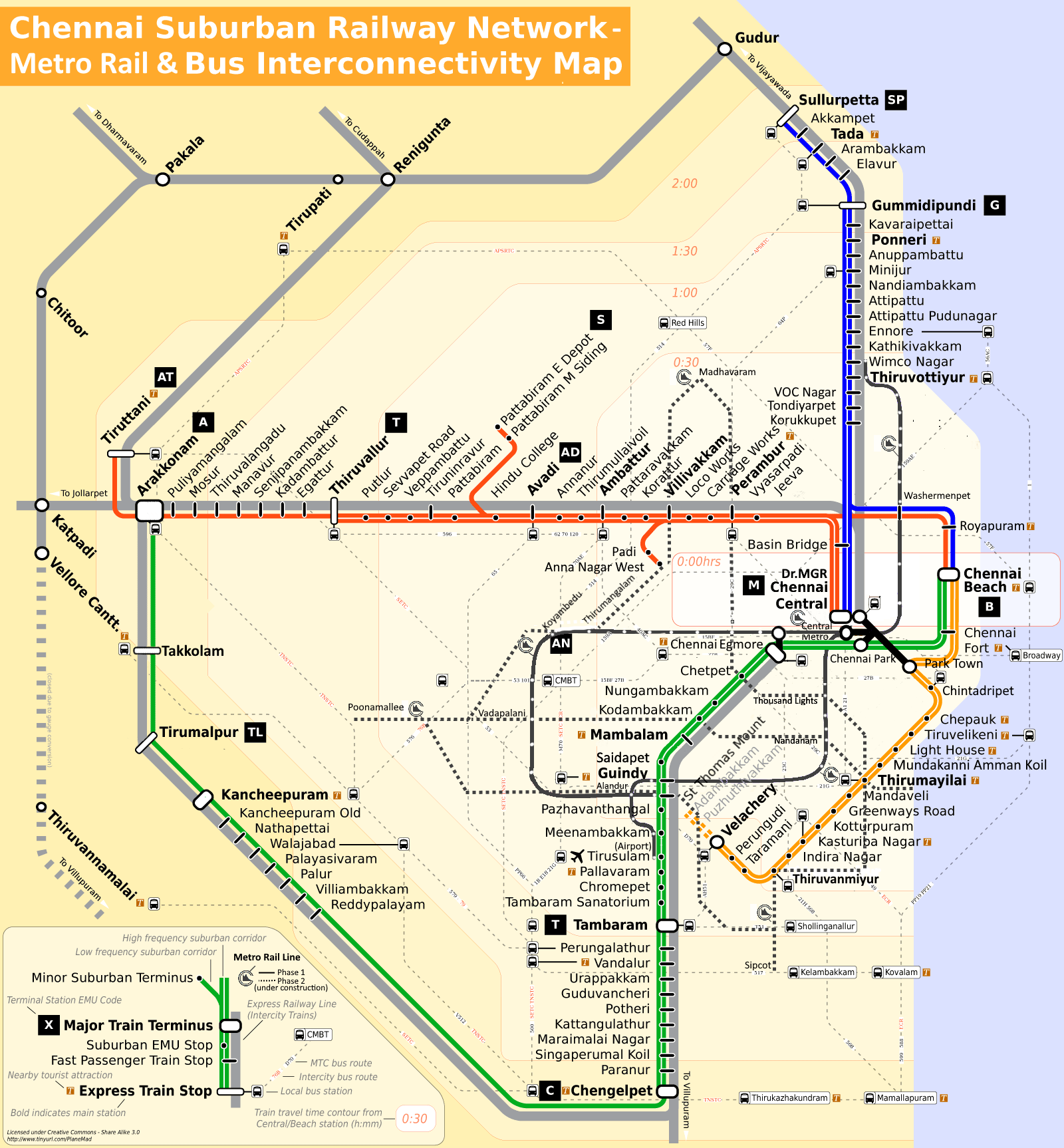 Map of the Chennai suburban railway network and interconnecting bus routes with central bus station(CMBT) . Notes This is a schematic map not to scale The 30min travel time contours are only applicable for EMU train journeys and are measured from Chennai Central/Chennai Beach Station Only skeletal bus network is shown with the most frequent route numbers Always verify your destination with the bus conductor before boarding This map is only to be used as a basic reference and not as a travel guide Distances on map have been distorted to improve readability. Always check travel times and distances with local transport officials. EMU:en:Electrical Multiple Unit; SETC:en:State Express Transport Corporation (Tamil Nadu); APSRTC:en:Andhra Pradesh State Road Transport Corporation; MTC:en:Metropolitan Transport Corporation (Chennai); TNSTC:en:TNSTC; ECR:en:East Coast Road (Tamil Nadu)